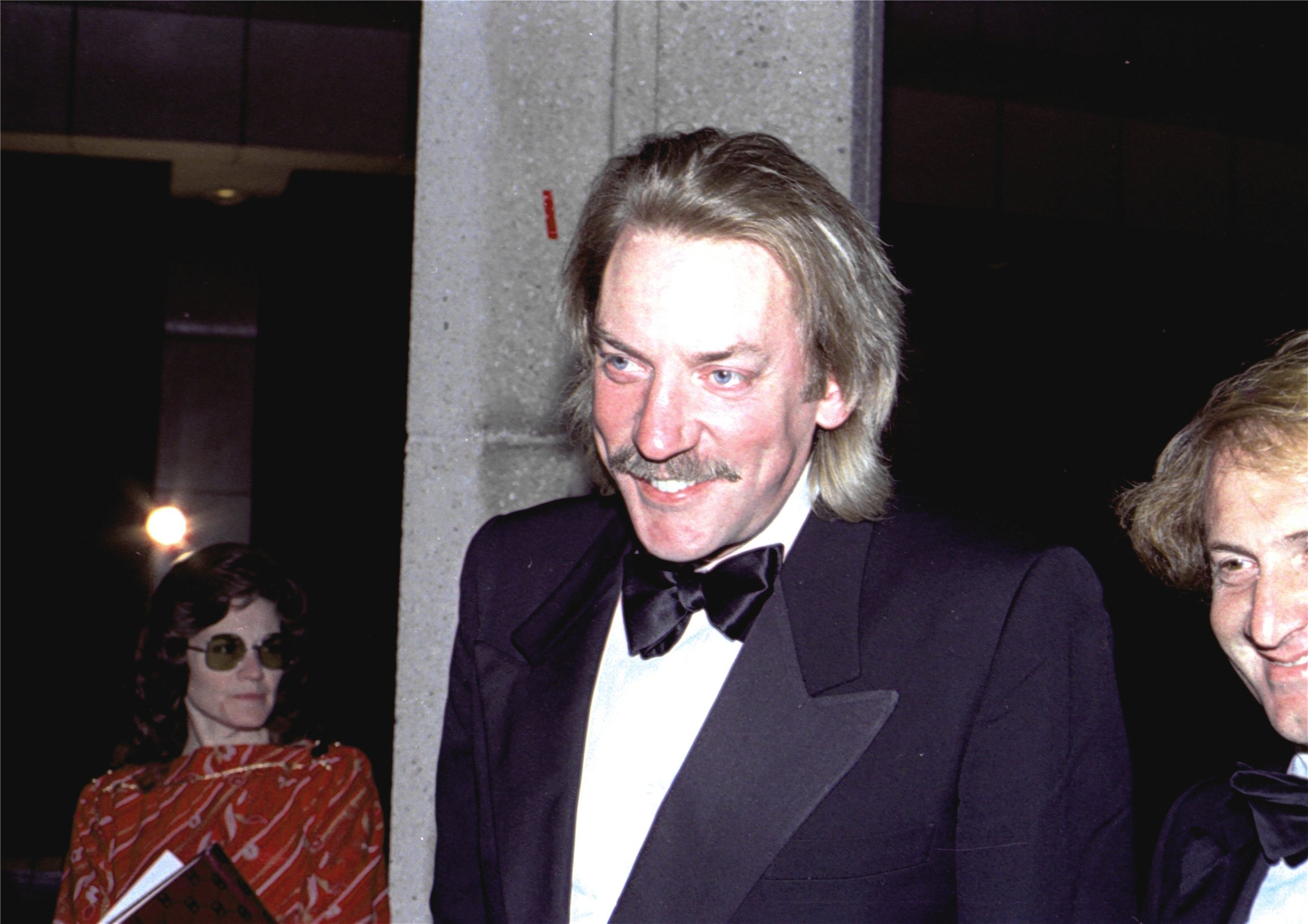 Donald Sutherland at the Filmex Tribute to Elixabeth Taylor, Dorothy Chandler Pavilion, November 1981. NOTE: Permission granted to copy, publish, broadcast or post any of my photos, but please credit "photo by Alan Light" if you can. Thanks.